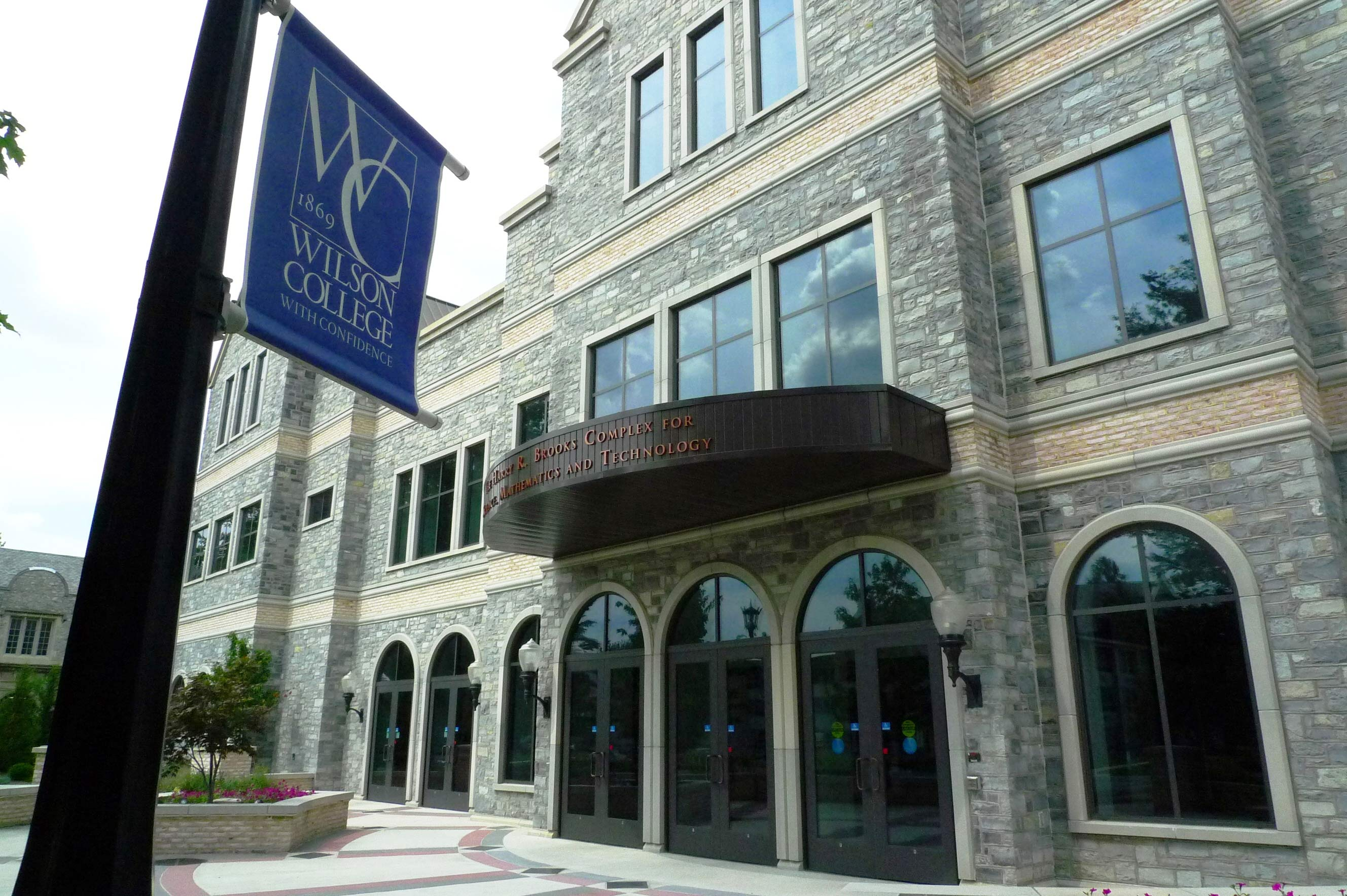 Wilson College Harry R. Brooks Complex for Science, Mathematics and Technology